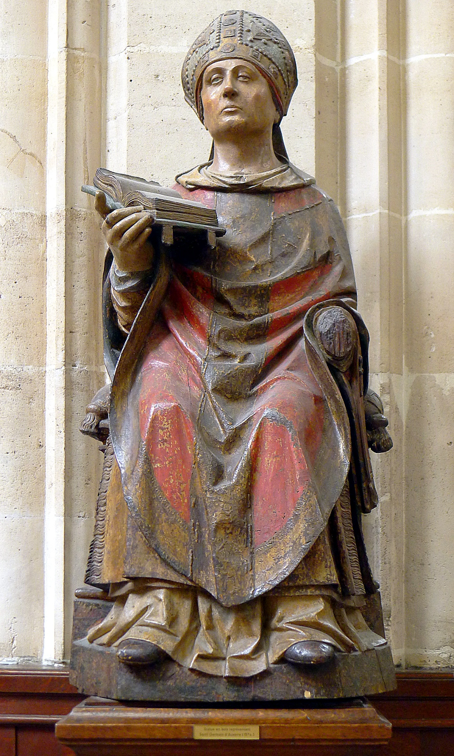 Saint-Germain l'Auxerrois church - Paris